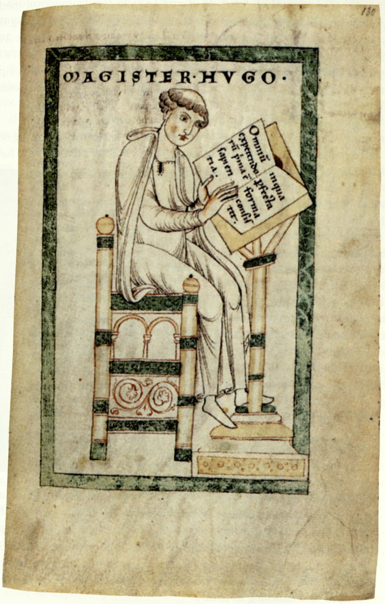 Hugh of Saint Victor writing his „Didascalicon“. Miniature in the manuscript Leiden, Bibliotheek der Rijksuniversiteit, Vulcanius 45, fol. 130r.